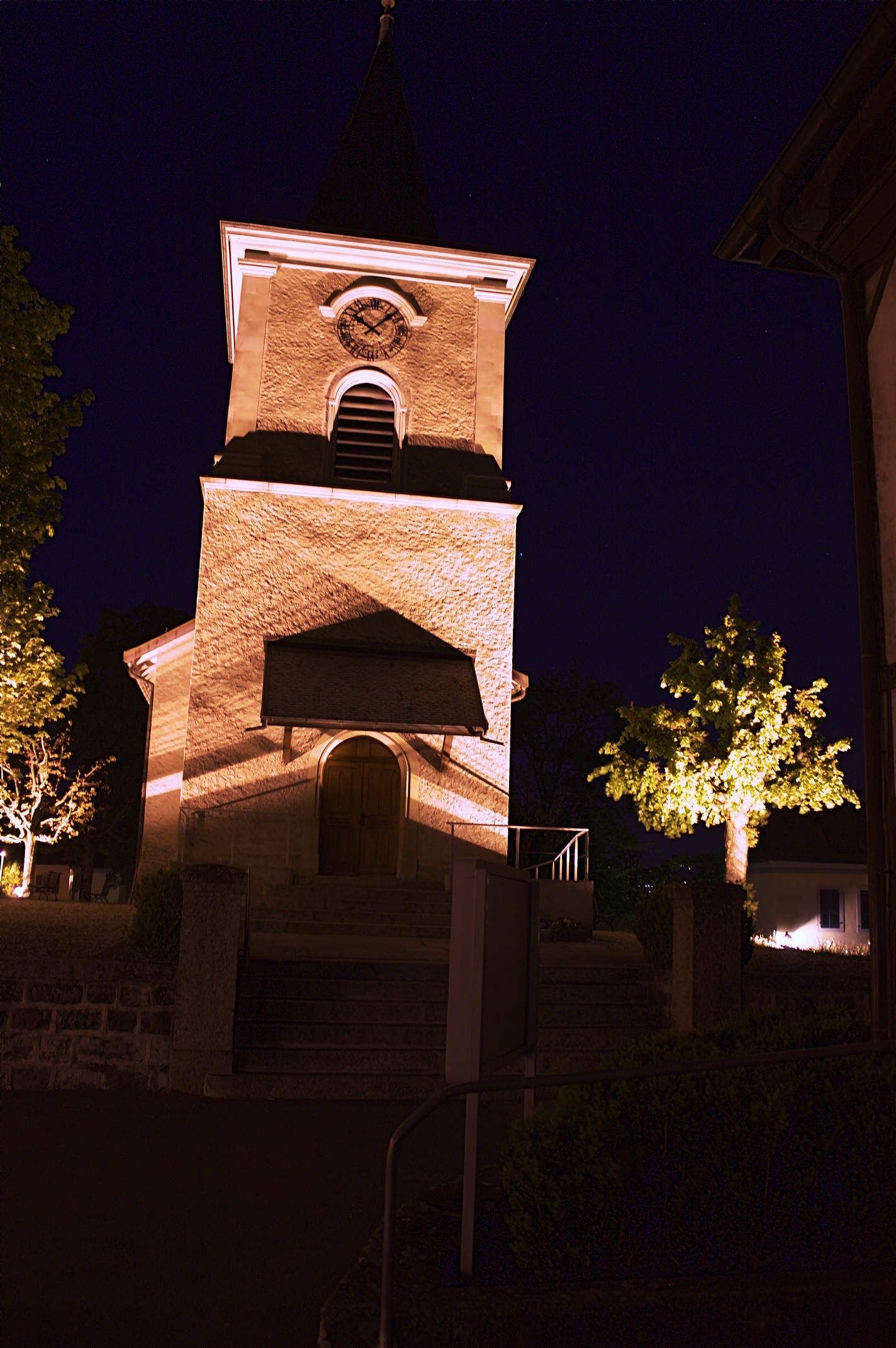 Church of Ecublens by night